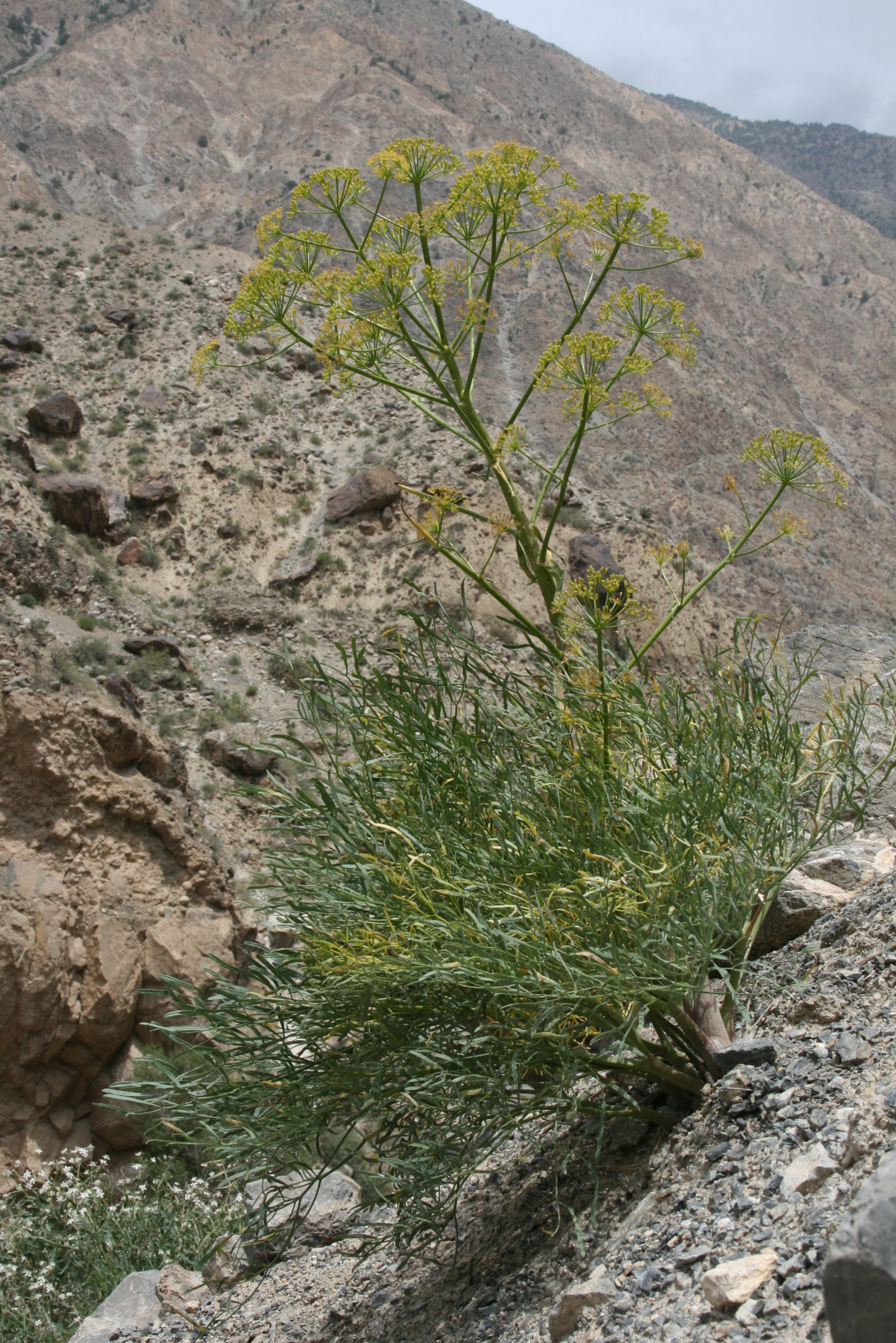 Alay Mts., Osh distr., Tegermech riv. (right trib. of Isfairamsai riv.), 55 km S Kyzyl-Kia Town, 1600 m. 29.06.2009